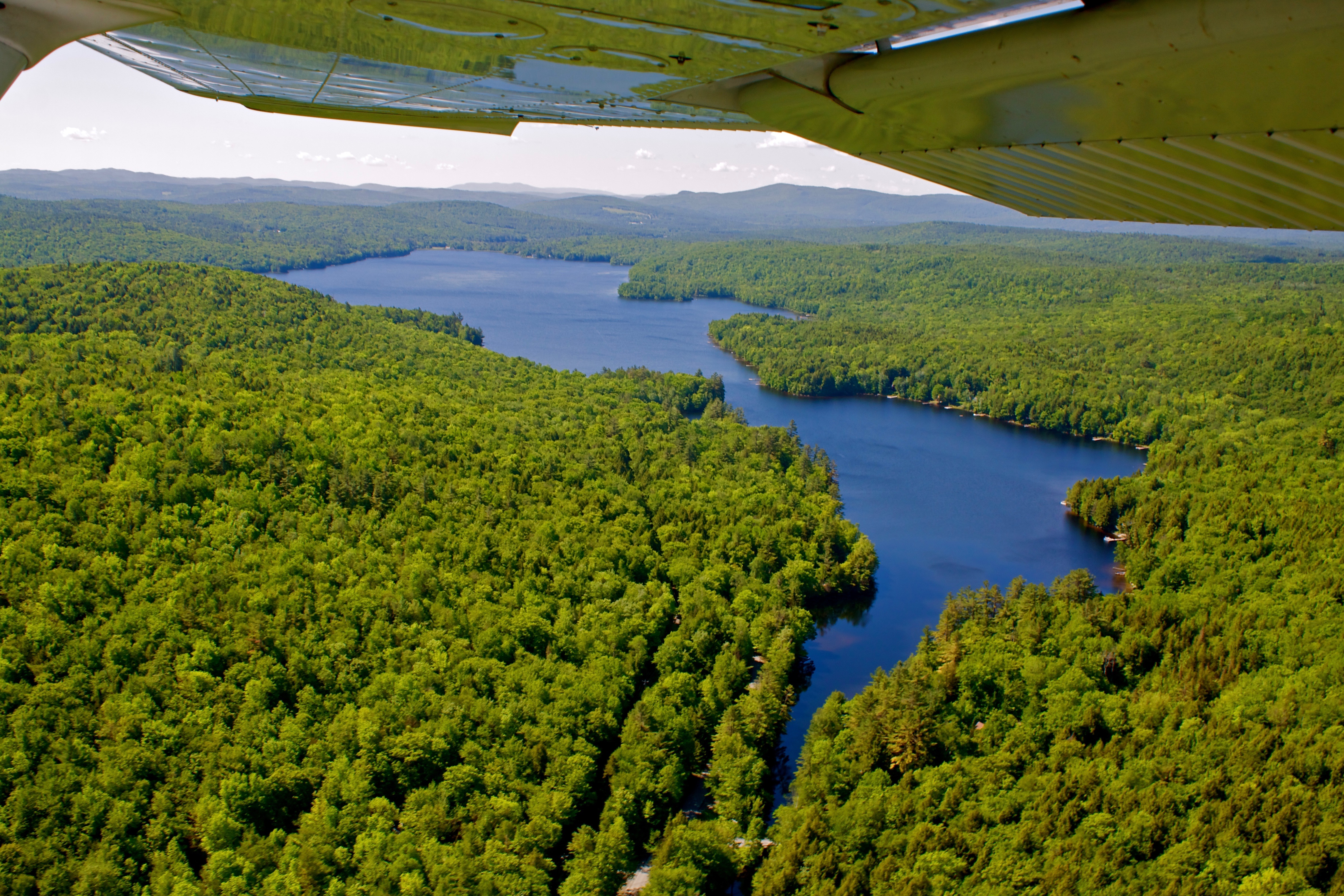 Goose Pond in Canaan & Hanover, New Hampshire